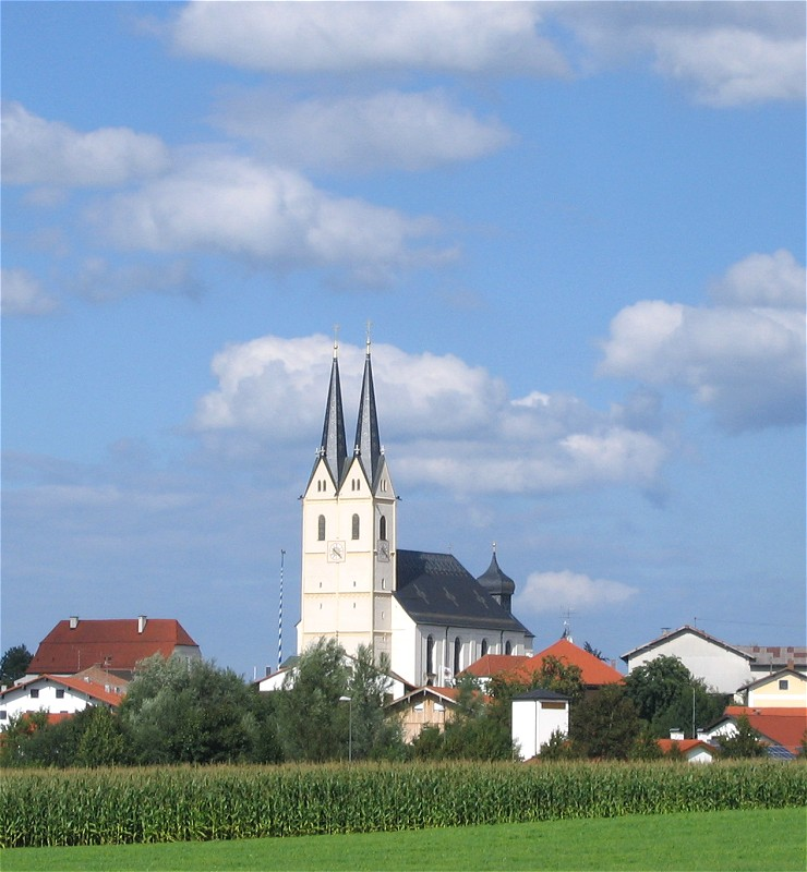 Tuntenhausen, view of Parish and Pilgrimage Church of the Assumption from south-west.